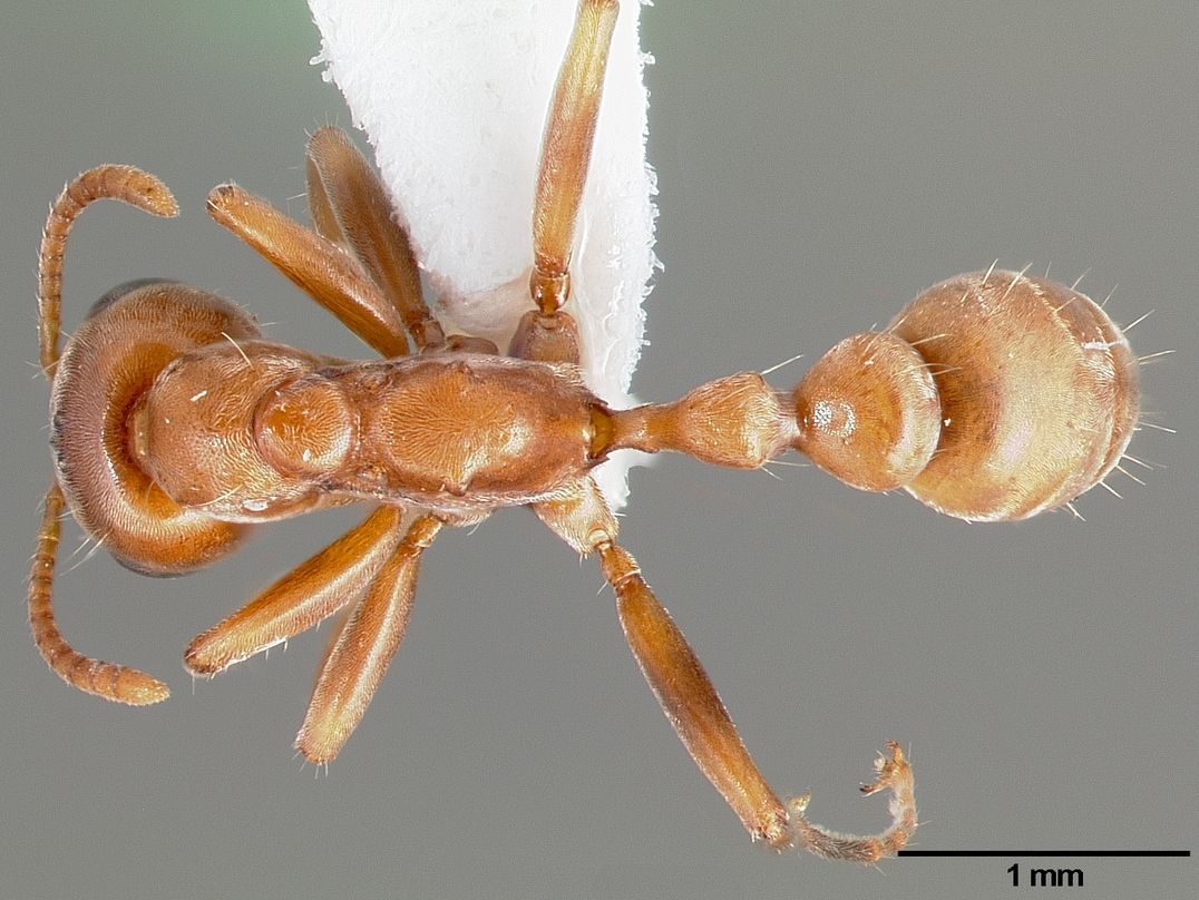 Dorsal view of ant Pseudomyrmex spinicola specimen casent0005800.